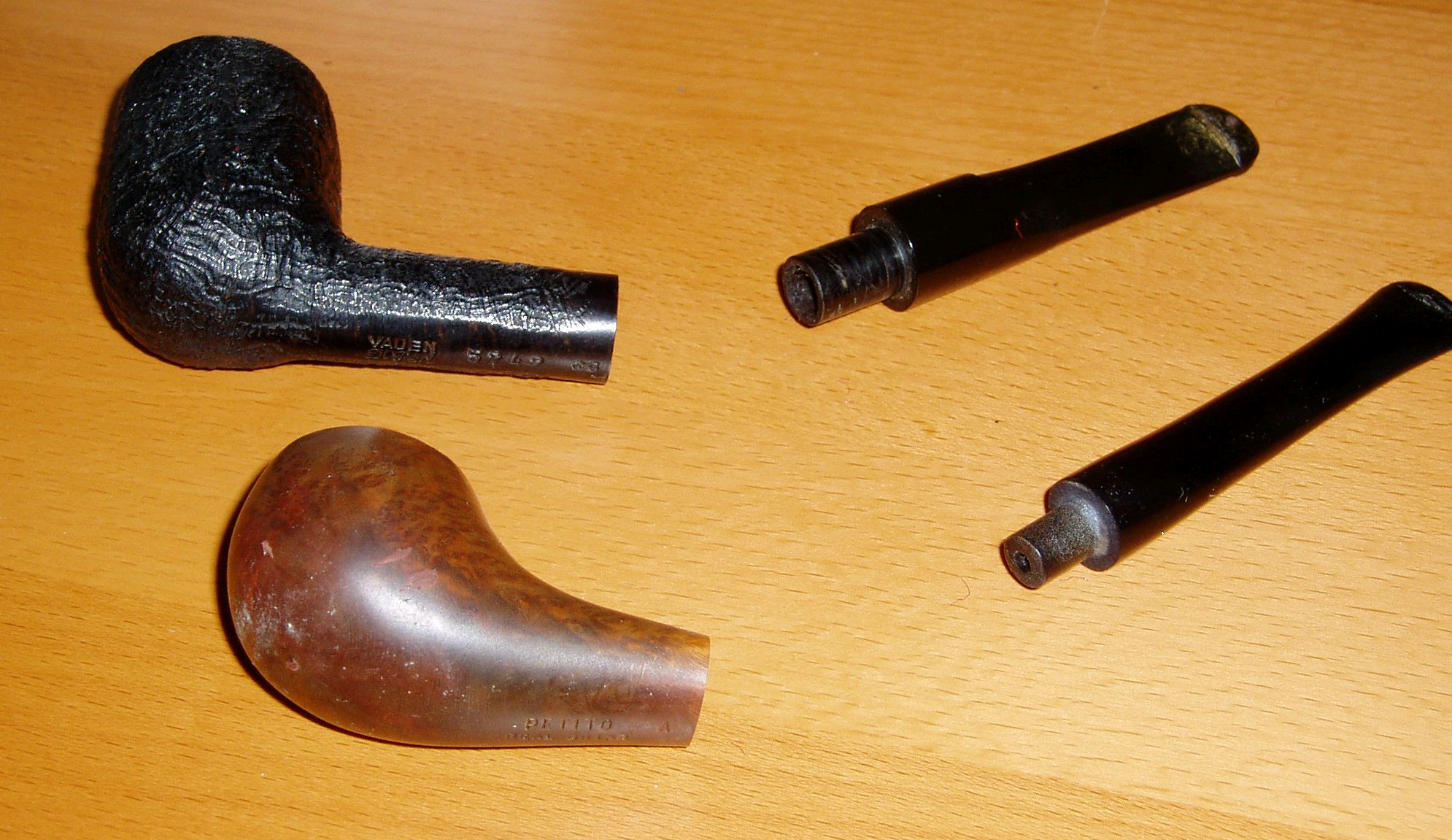 Two smoking pipes, photographed at my own.